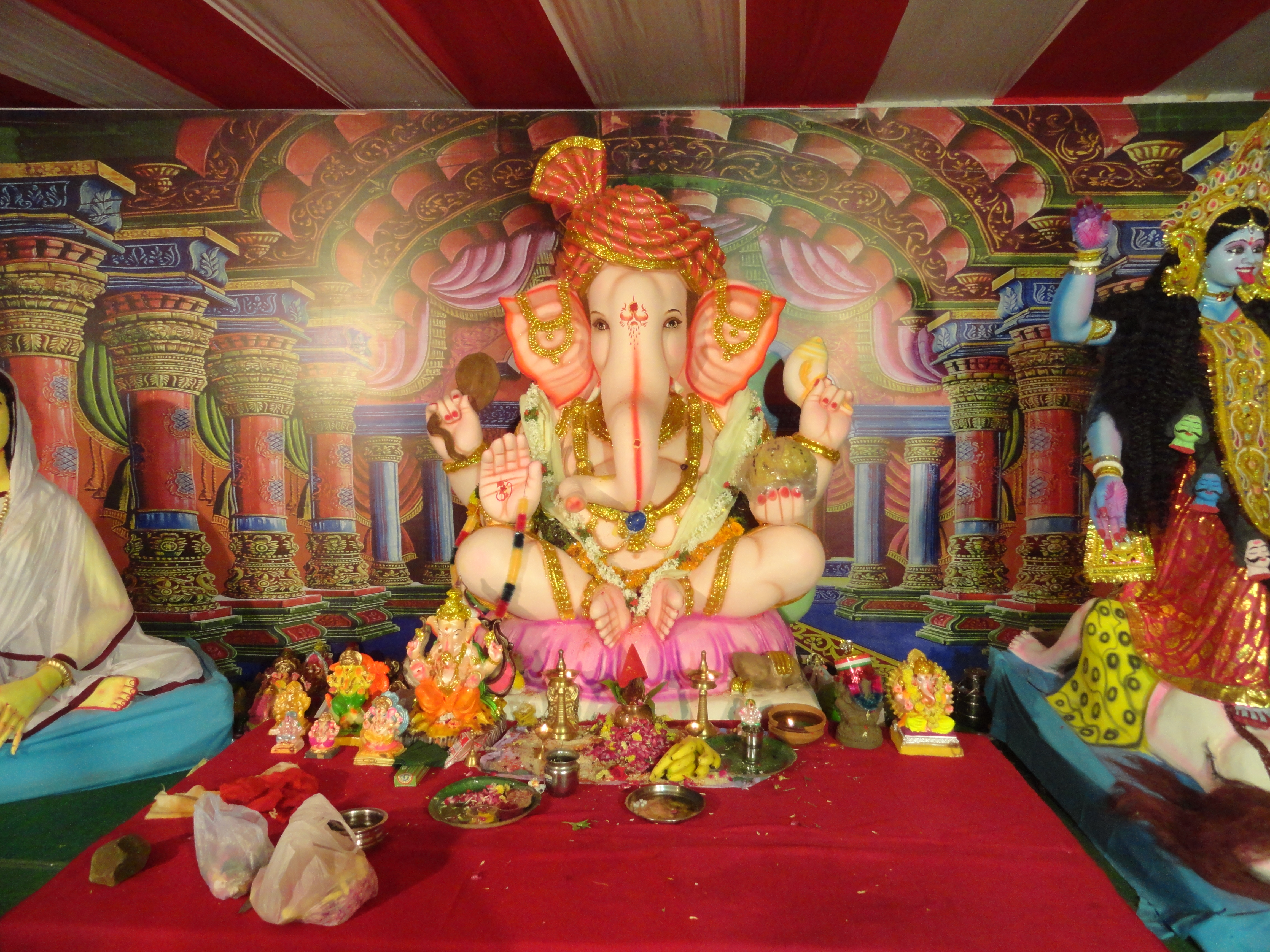 వినాయక చవితి సందర్బంగా అనేక రూపాలలో గనేష్ మహరాజ్. 2